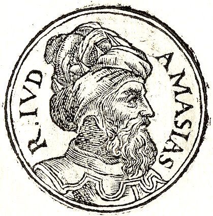 Amasias was the king of Judah, the son and successor of Joash.